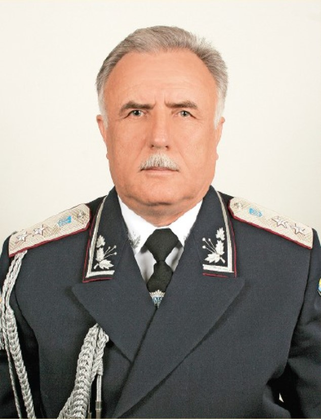 Portrait of Romaniuk Bohdan from Logos